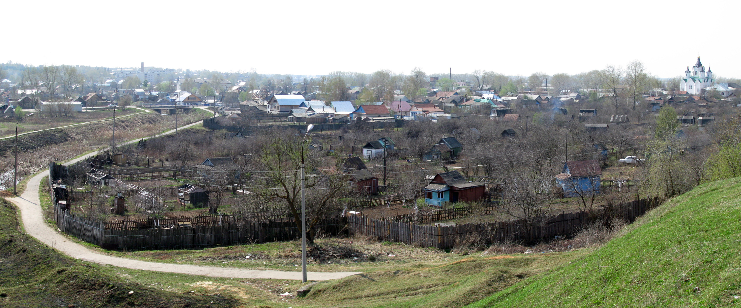 View over the river Shamka